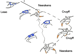 Neeskens goal for The Netherlands vs Brazil, 1974.